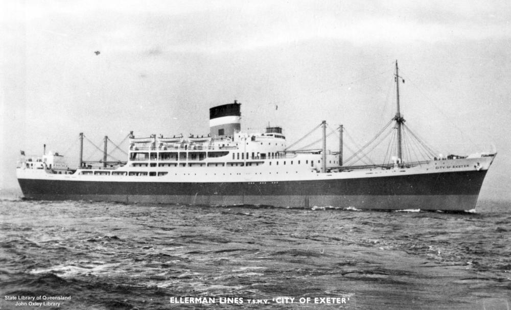 Ellerman Lines' 13,343 GRT cargo liner MV City of Exeter, built in 1953 by Vickers Armstrong in Newcastle-upon-Tyne. She was sold in 1971 to Michael Karageorgis, who converted her into a car ferry and renamed her Mediterranean Sea. She was sold to Turkish owners in 1995, renamed Tutku, and again to Greek owners in 1996, becoming Alice. She was scrapped at Aliaga, Turkey in 1998